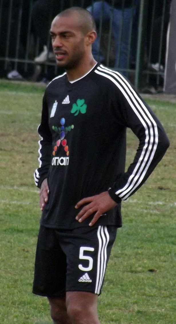 Cédric Kanté during an away Panathinaikos game against Agrotikos Asteras.